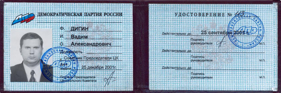 The membership card of the "Democratic party of Russia (DPR) issued in December 2001.